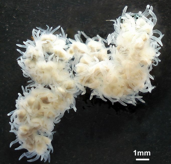 Stolon stage of Polypodium hydriforme just after emerging from the host oocyte.